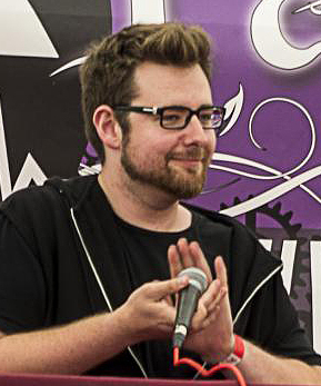 TomSka during the Geek Faëries (France) in 2016.